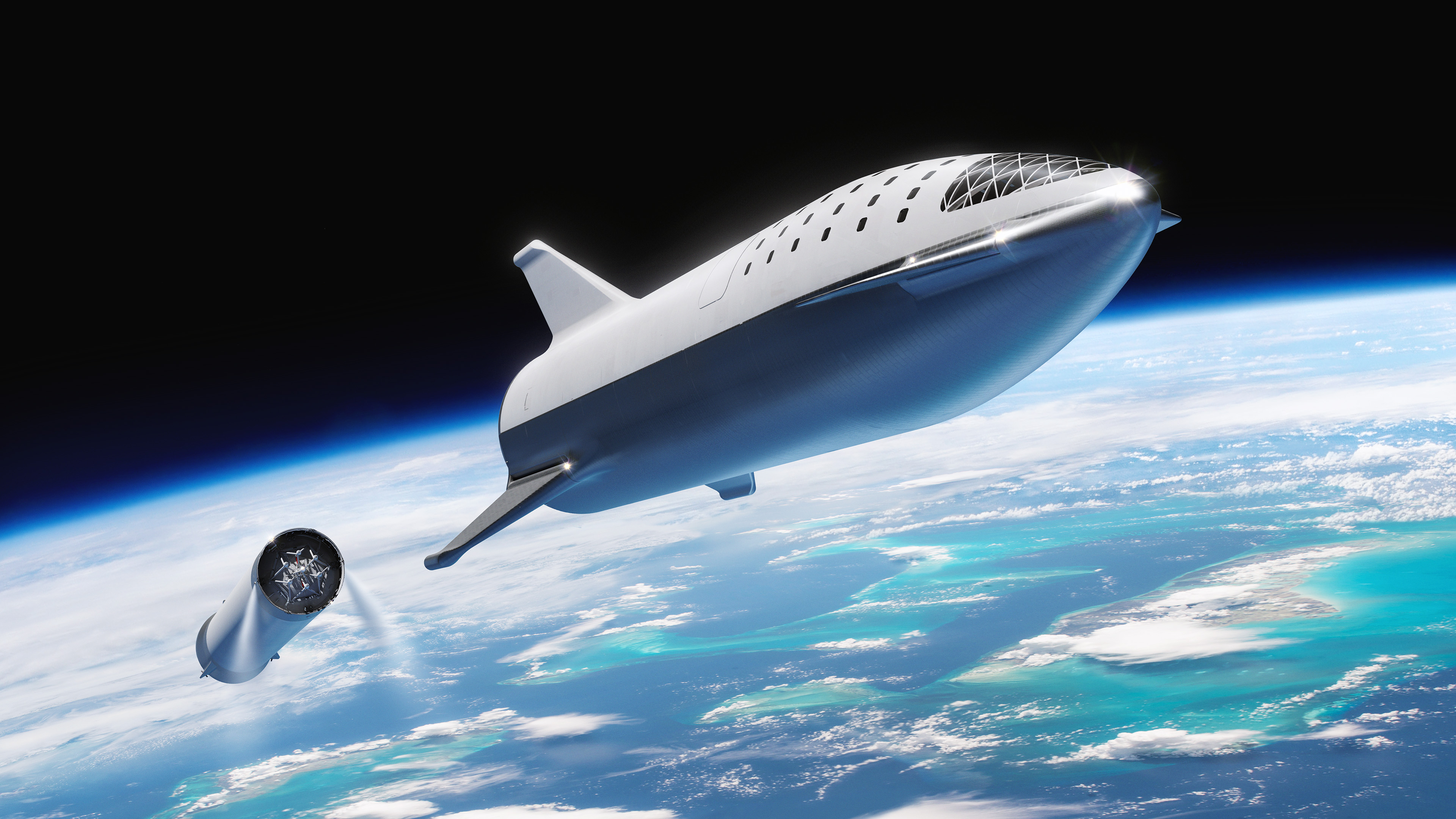 The 2018 version of the Big Falcon Rocket at stage separation: Starship (foreground) and Super Heavy (background)